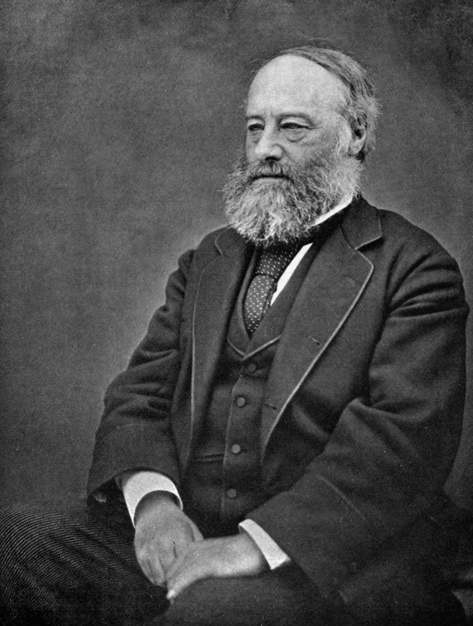 Picture of James Joule